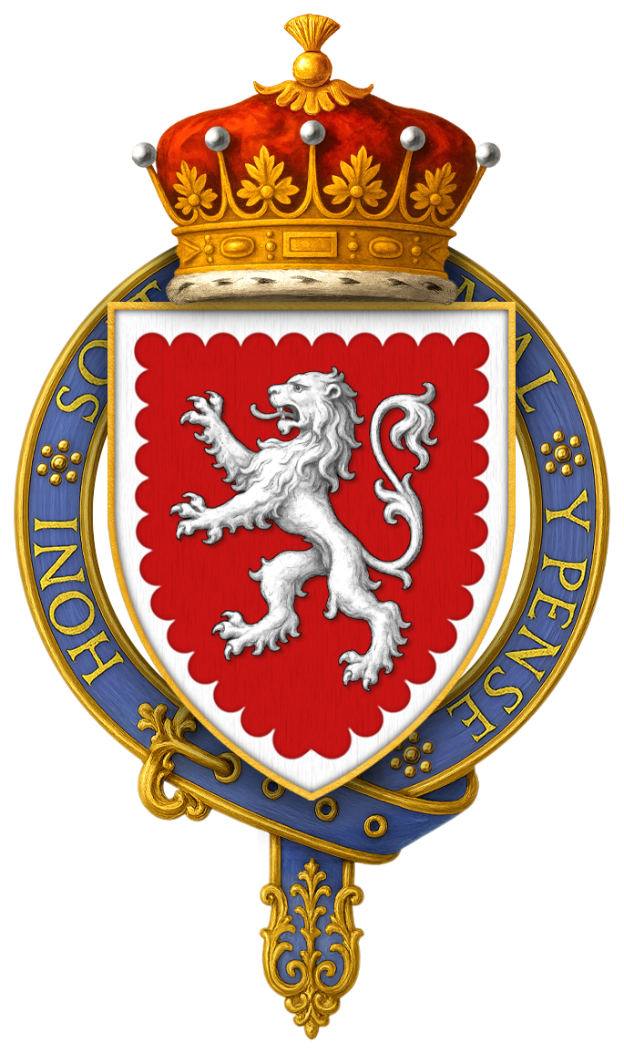 Sir John Grey, 1st Earl of Tankerville, KG HOPE, W. H. St. John, ‘’The Stall Plates of the Knights of the Order of the Garter 1348 – 1485: A Series of Ninety Full-Sized Coloured Facsimiles with Descriptive Notes and Historical Introductions,’’ Westminster: Archibald Constable and Company LTD, 1901. “ Sir John Grey, Earl of Tankerville, c. 1419-1421... arms, gules a lion and a bordure engrailed silver... ” Stall plate remains intact within the fifth stall, on the south side of the quire.